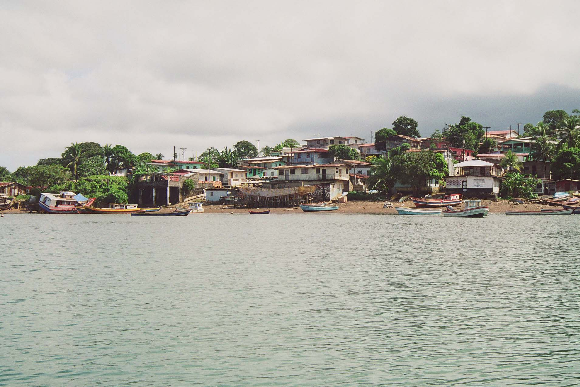 Ken Erickson, 2003, San Miguel, Pearl Islands, Panama, view from the water